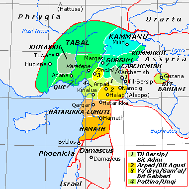 Historical map of the Neo-Hittite states (ca. 800 BCE). Based on data from Tübinger Bibelatlas (Tübinger Bible Atlas), S. Mittmann & G. Schmitt (eds.), maps B IV 13-14, and O.R. Gurney, The Hittites, Harmondsworth: Penguin (Pelican Books), 2nd ed., 1976 (=1954) pp. 39-46. "State borders" are approximate only.